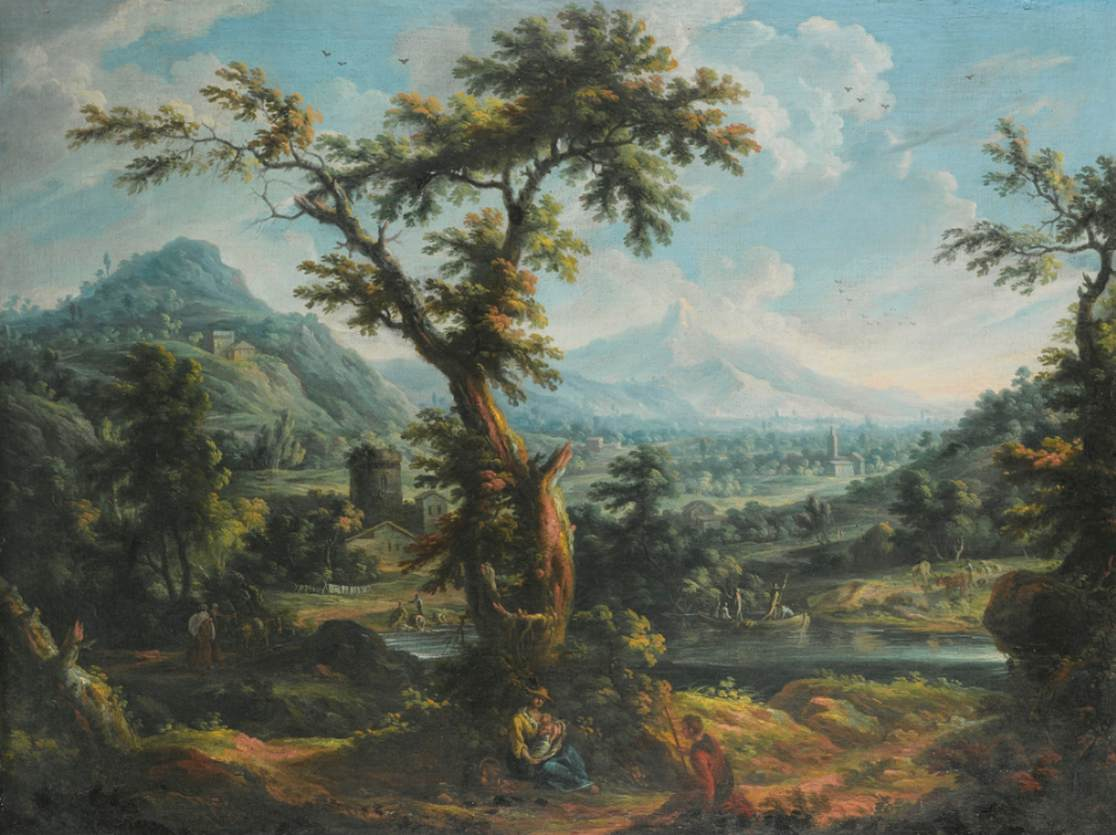 View of the Susa Valley c. 1735 Oil on canvas, 91 x 120 cm Private collection